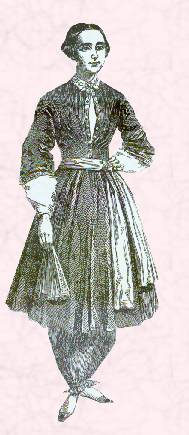 Depiction of Amelia Bloomer wearing the famous "bloomer" costume which was named after her (mid-length skirts over quasi-harem-pants)